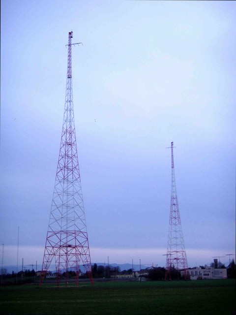 HBG is a low frequency time signal transmitter for the Swiss time reference system. Due to aging antennas the Swiss Federal Government has decided to shut down HBG on 31 December 2011.